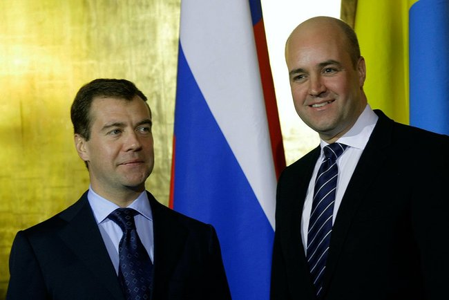 STOCKHOLM, SWEDEN. With Swedish Prime Minister Fredrik Reinfeldt.